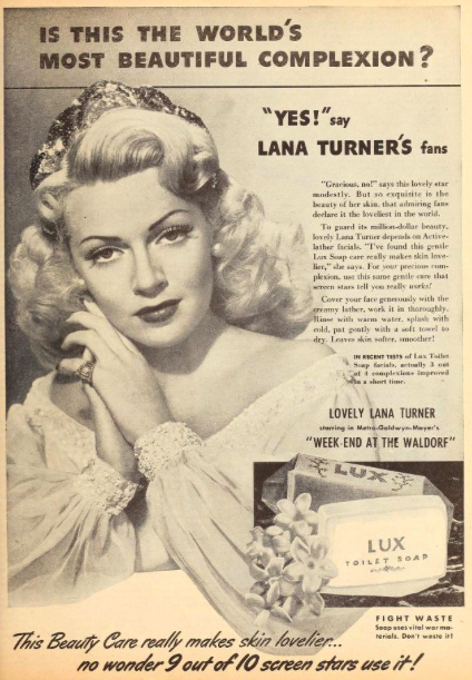 Lana Turner Lux Soap advertisement, 1945